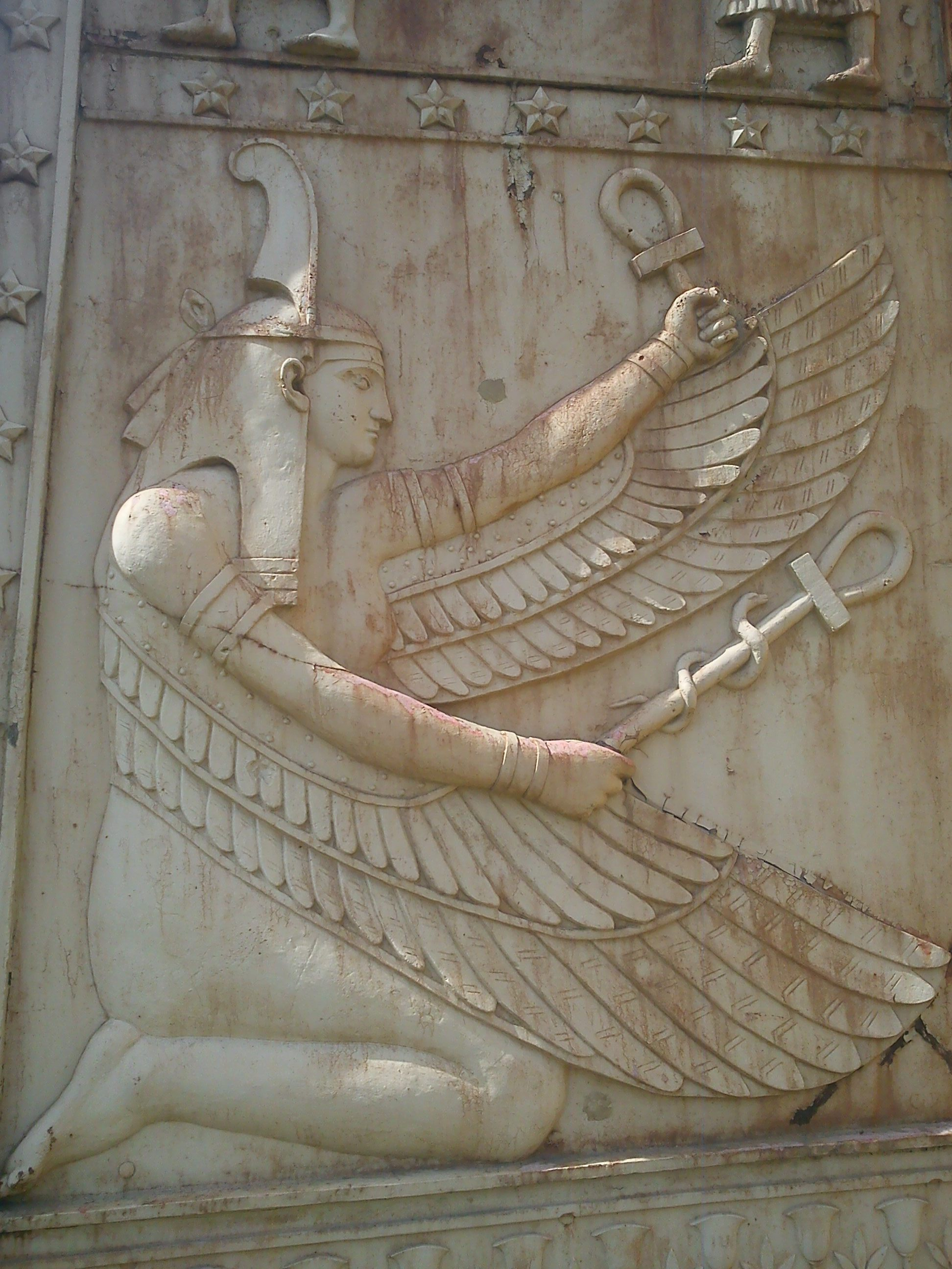 Egyptian revival art. Maat.